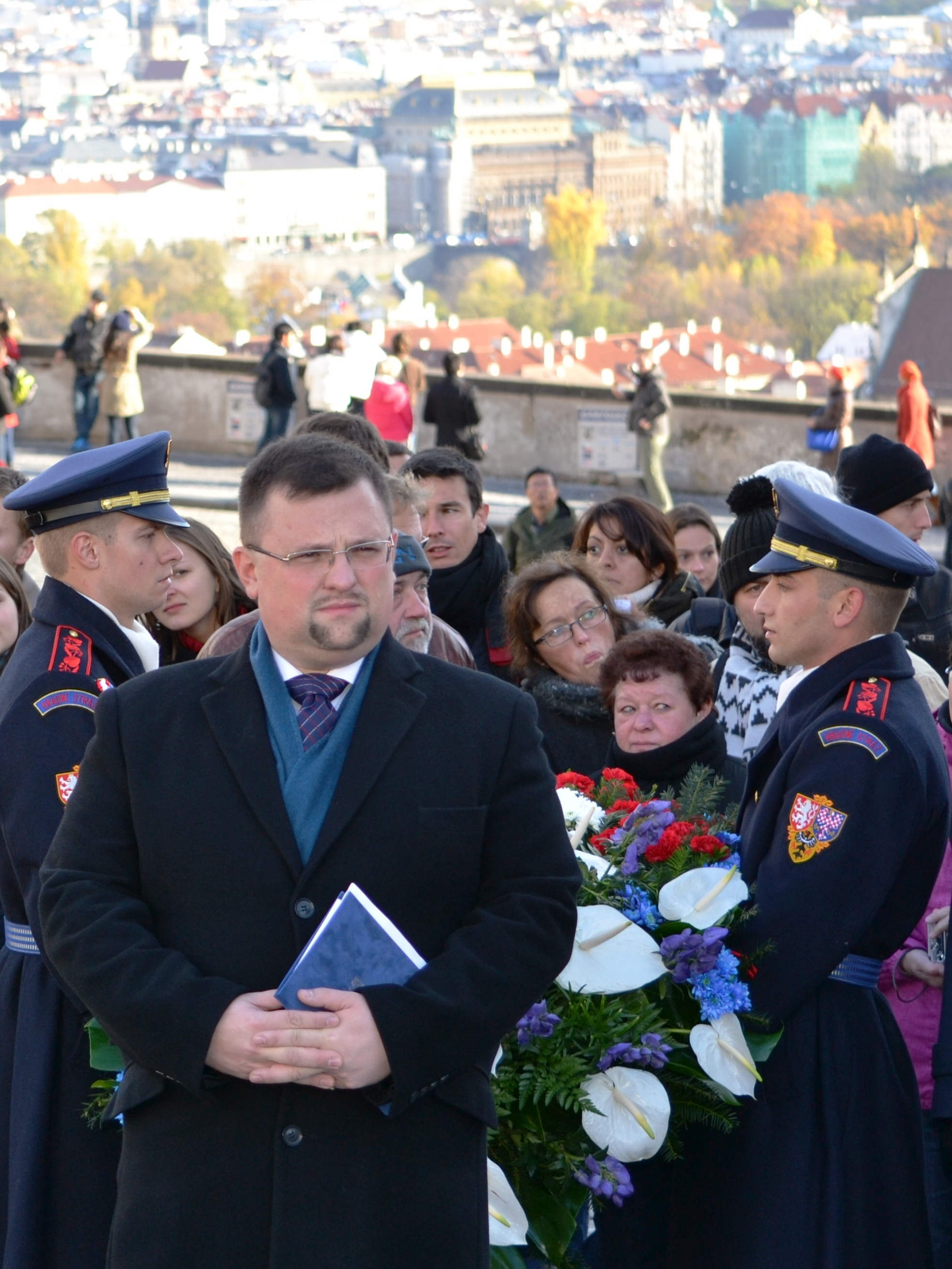 Jindřich Forejt, Director of the Protocol Dept. of the Office of the President of the Czech Republic